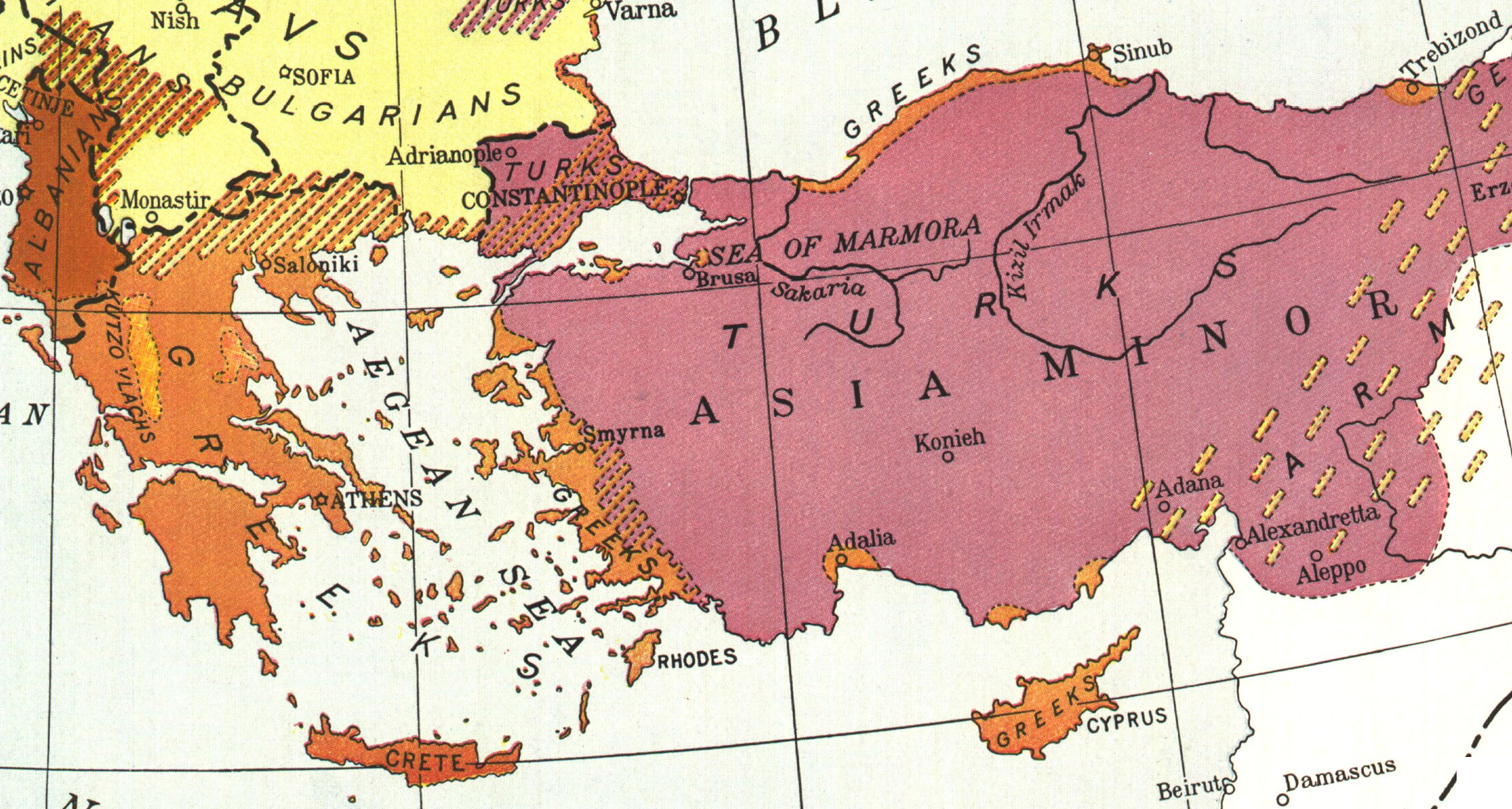 Distribution Of Ethnic Groups on the Greek Peninsula and Anatolia in 1918